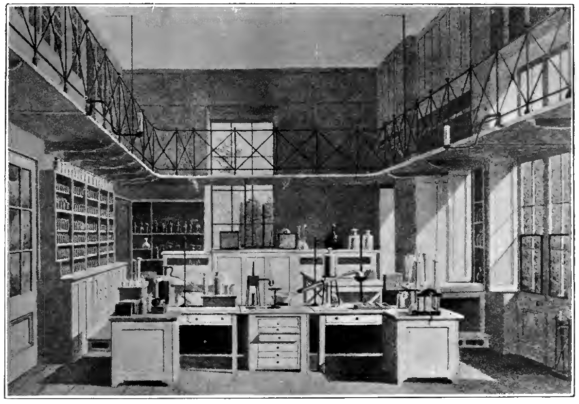 Charles Daubeny was an English polymath who established this laboratory at Magdalen College, Oxford in 1848.